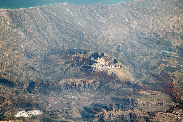 An astronaut on the International Space Station took this oblique photograph of the Maiella Massif, which stands amidst Italy’s Central Apennine Mountains. Located just 40 kilometers (25 miles) from the Adriatic Sea coastline, the Maiella Massif abruptly rises more 2700 meters (9000 feet) above sea level. Shadows and the oblique viewing angle give a strong three-dimensional sense to the steep, blocky cliffs and the dendritic drainage channels leading to the coast. Complicated tectonics elevated the Maiella Massif from rock layers that were originally deposited at the bottom of the sea between 23 and 100 million years ago. The highest peak of the massif, Monte Amaro, is made of a light-colored limestone. Below the noticeably bare high plains, the tree line cuts across steep slopes. Since the photo was shot during local autumn, the tree line has a dark, reddish hue of fall color. The massif is a geologic formation called an anticline, an arch-like structure of folded rock layers that can trap petroleum. Maiella was important to Italy’s oil industry in the 19th and 20th centuries, though far fewer exploration wells have been drilled there in recent years. In 1991, Maiella National Park was created to preserve the area’s unique biodiversity and archaeological significance in the Apennines.